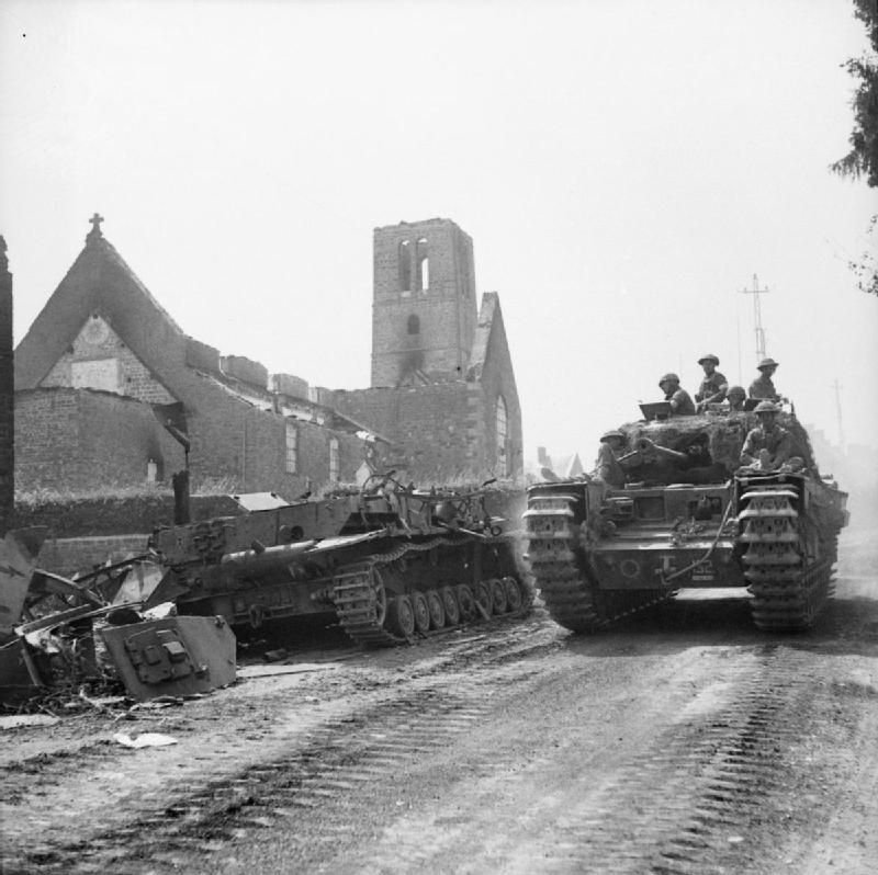 The British Army in the Normandy Campaign 1944 A Churchill tank carrying infantry of the Royal Scots Fusiliers passes a destroyed German Mk IV tank in Le Tourneur, 3 August 1944.